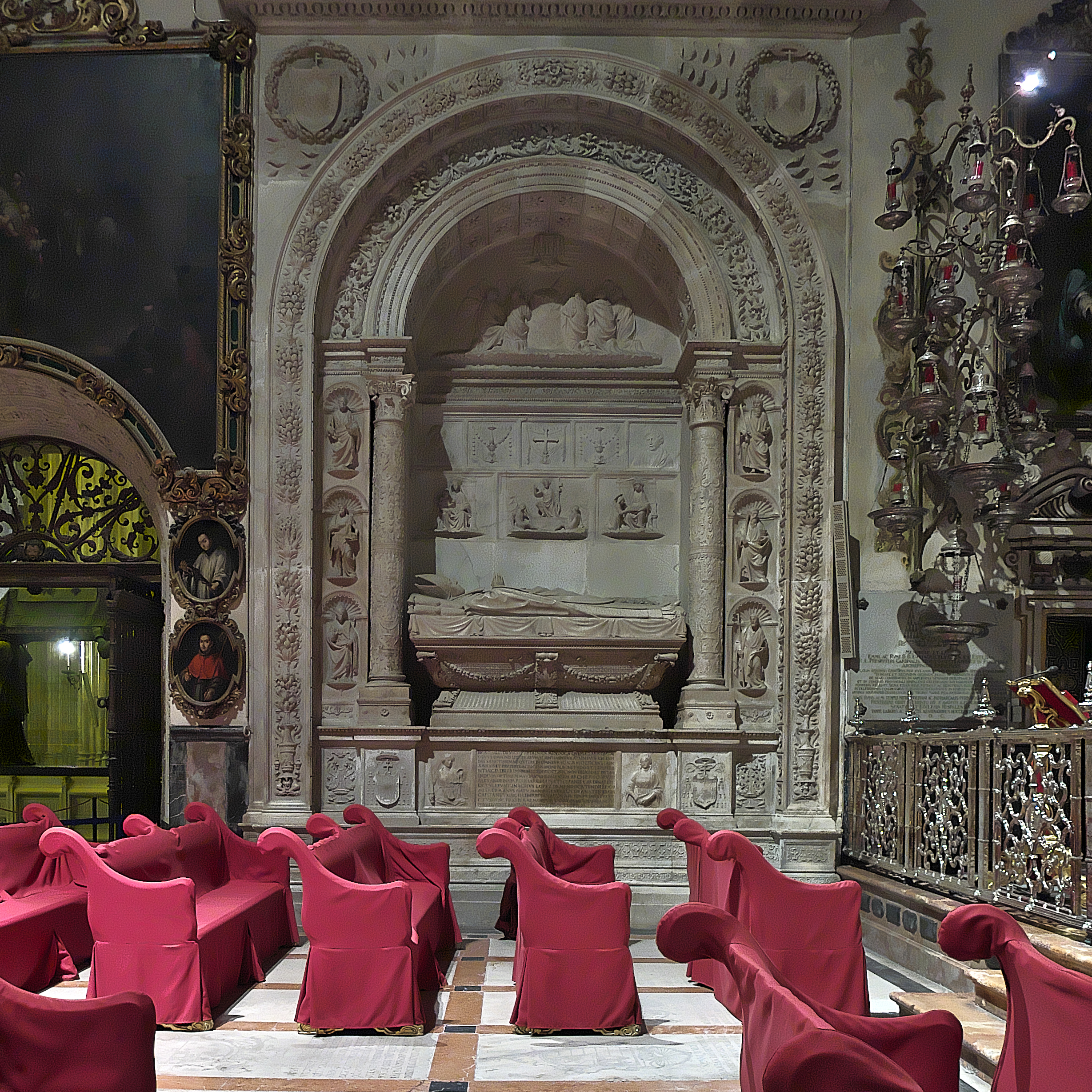 Chapel of the Virgen de la Antigua